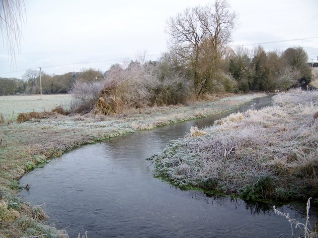 Stream, Ton Bridge The stream is a tributary of the River Allen.